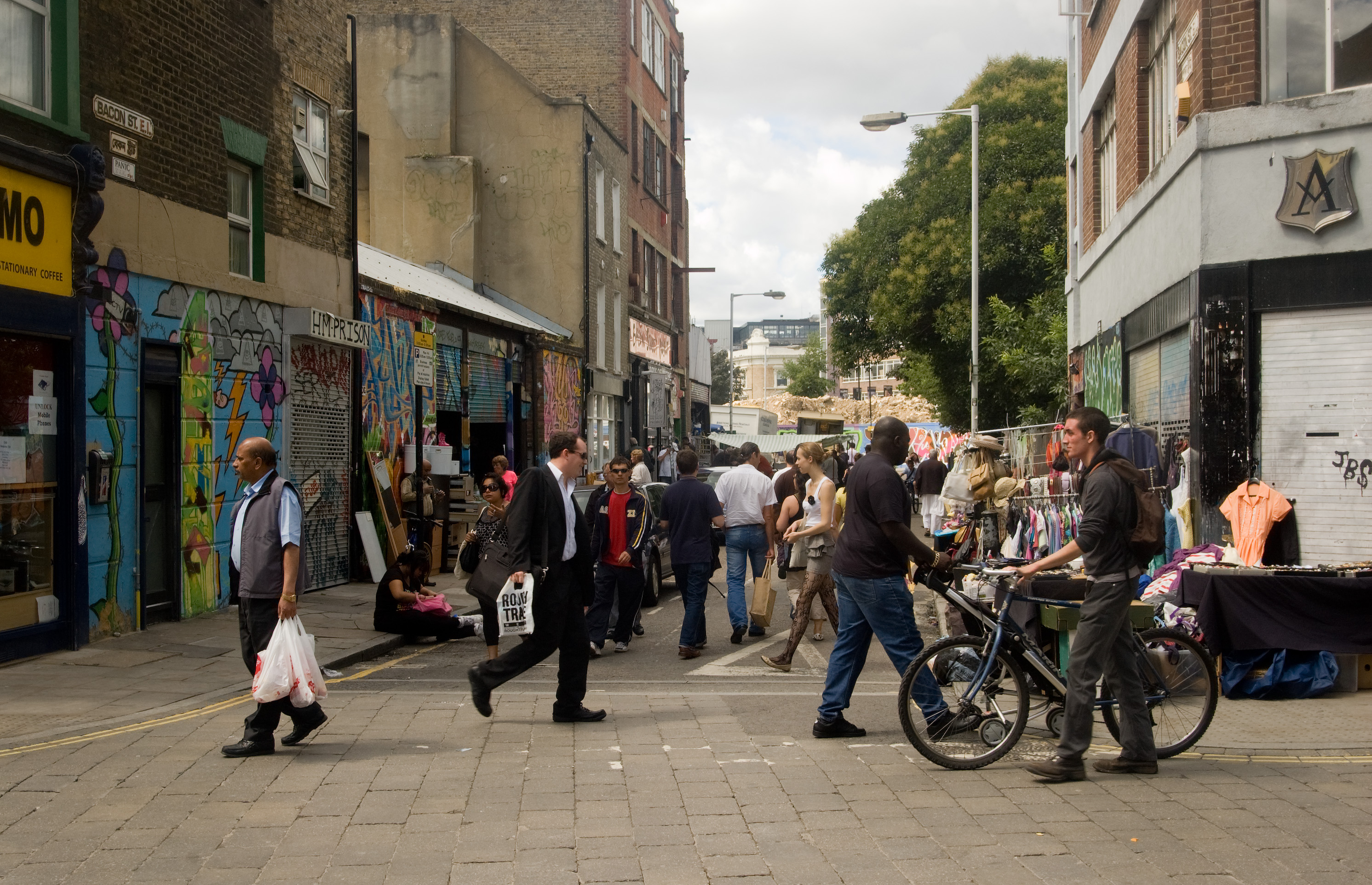 Street scene from Brick Lane in London.